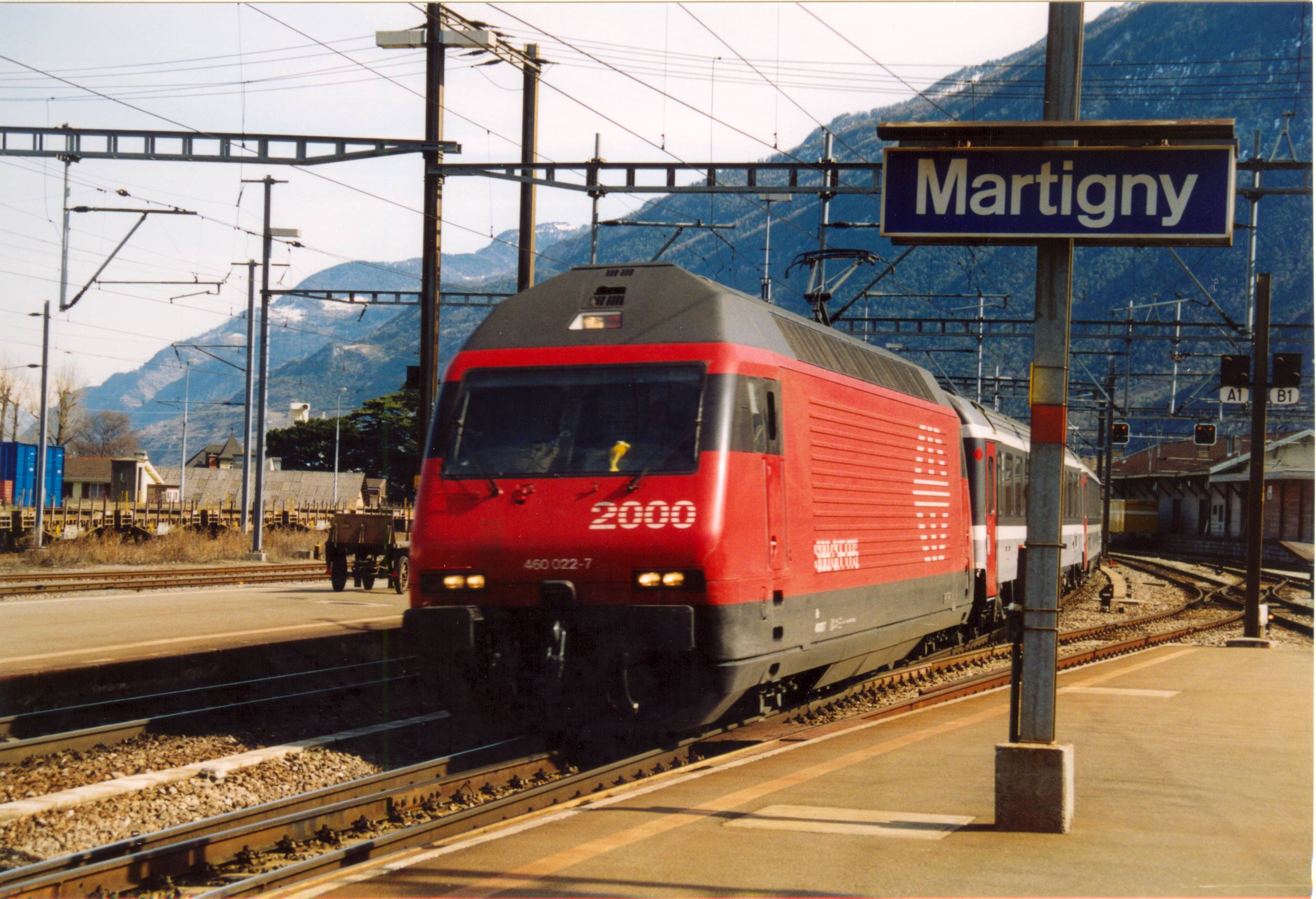 Station of Martingy (Switzerland) with Re 460 022-7